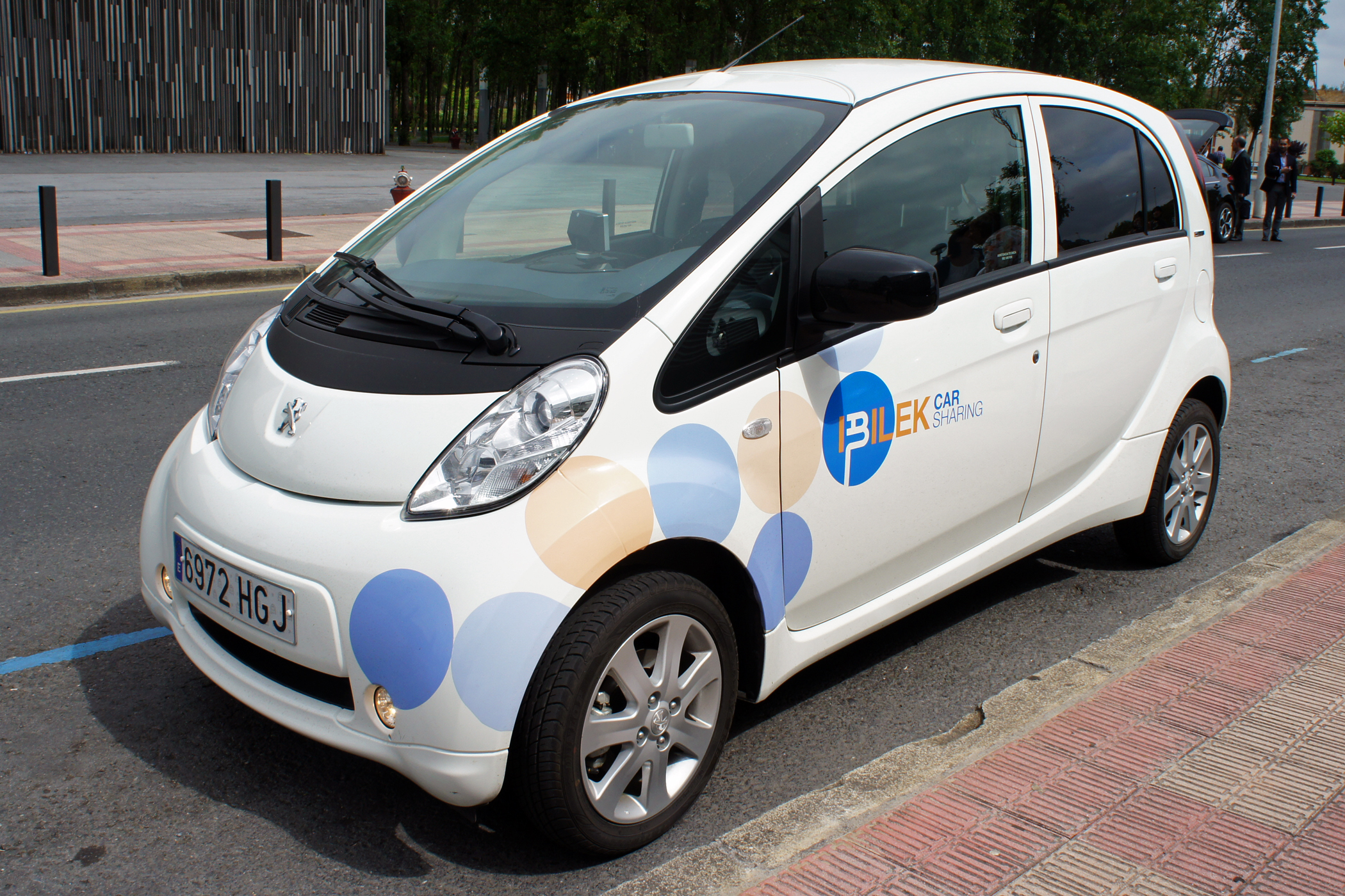 Peugeot iOn electric car part of iBilek carsharing service fleet in Bilbao, Spain